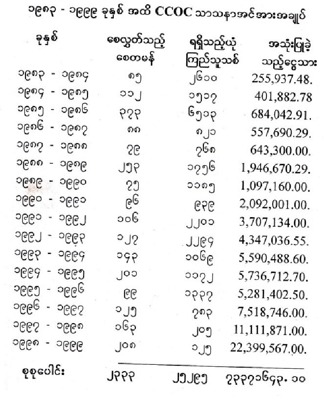 Chin Baptist Convention - CCOC Mission Expenditure (1983-1999)